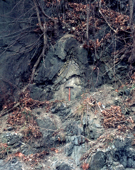 Tight anticlinal fold in the Wills Creek Formation, along Route 22, Neff, Huntingdon County, Pennsylvania. The contrast is enhanced to make it easier to see the fold. Taken December 20, 1998, facing southwest.